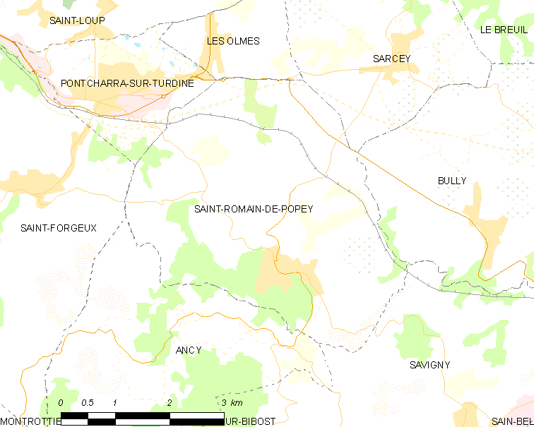 Map of French municipality